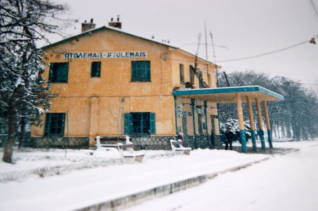 Greece - Ptolemaida Train Station (winter 1990)